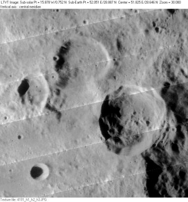 LO-IV-191H 30-km Debes is the uppermost crater in this grouping, with 43-km Tralles to the right of center. Between them, below Debes, is 33-km Debes A, and to its left, the polygonal 19-km Debes B. The 11-km circular crater in the lower left is Tralles B. The rugged inner wall of the west rim of 125-km Cleomedes looms on the far right.